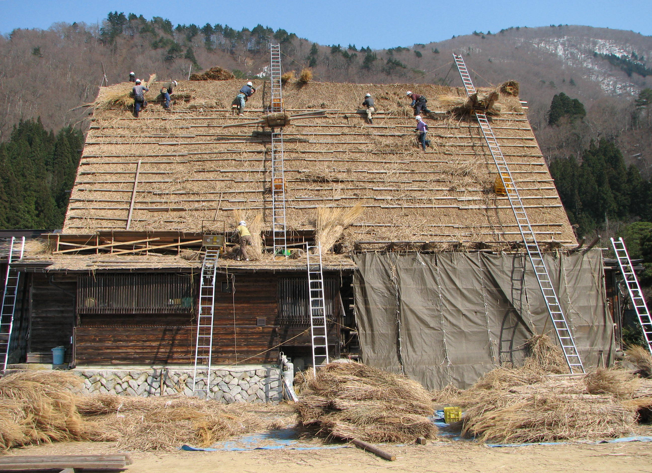 Gassho-zukuri farmhouse, Ogimachi Village, Shirakawa-go, Gifu Prefecture, Japan